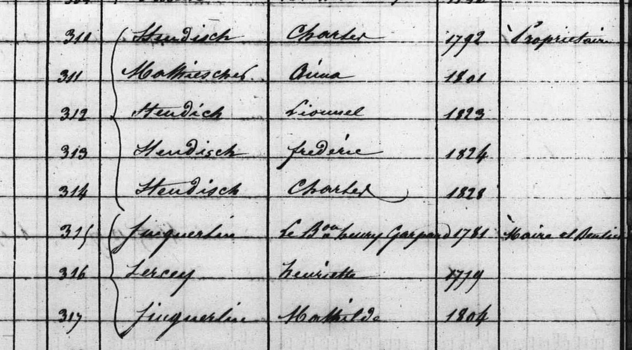 Census of population of Carlepont (department of the Oise) in 1831. Standish family and Finguerlin de Bischingen family at the castle of Carlepont.